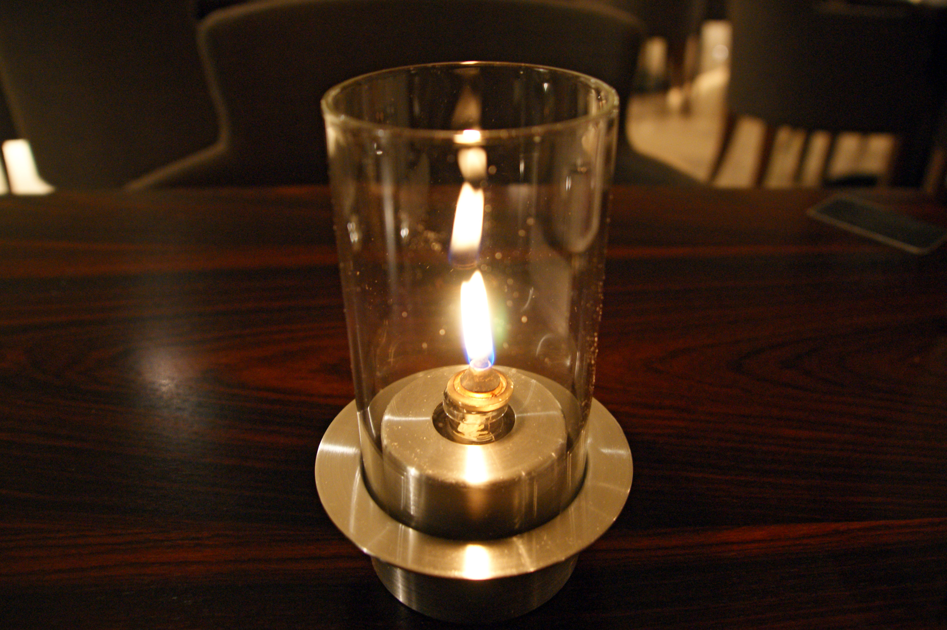 Yours Hotel Fukui, Fukui, Fukui prefecture, Japan